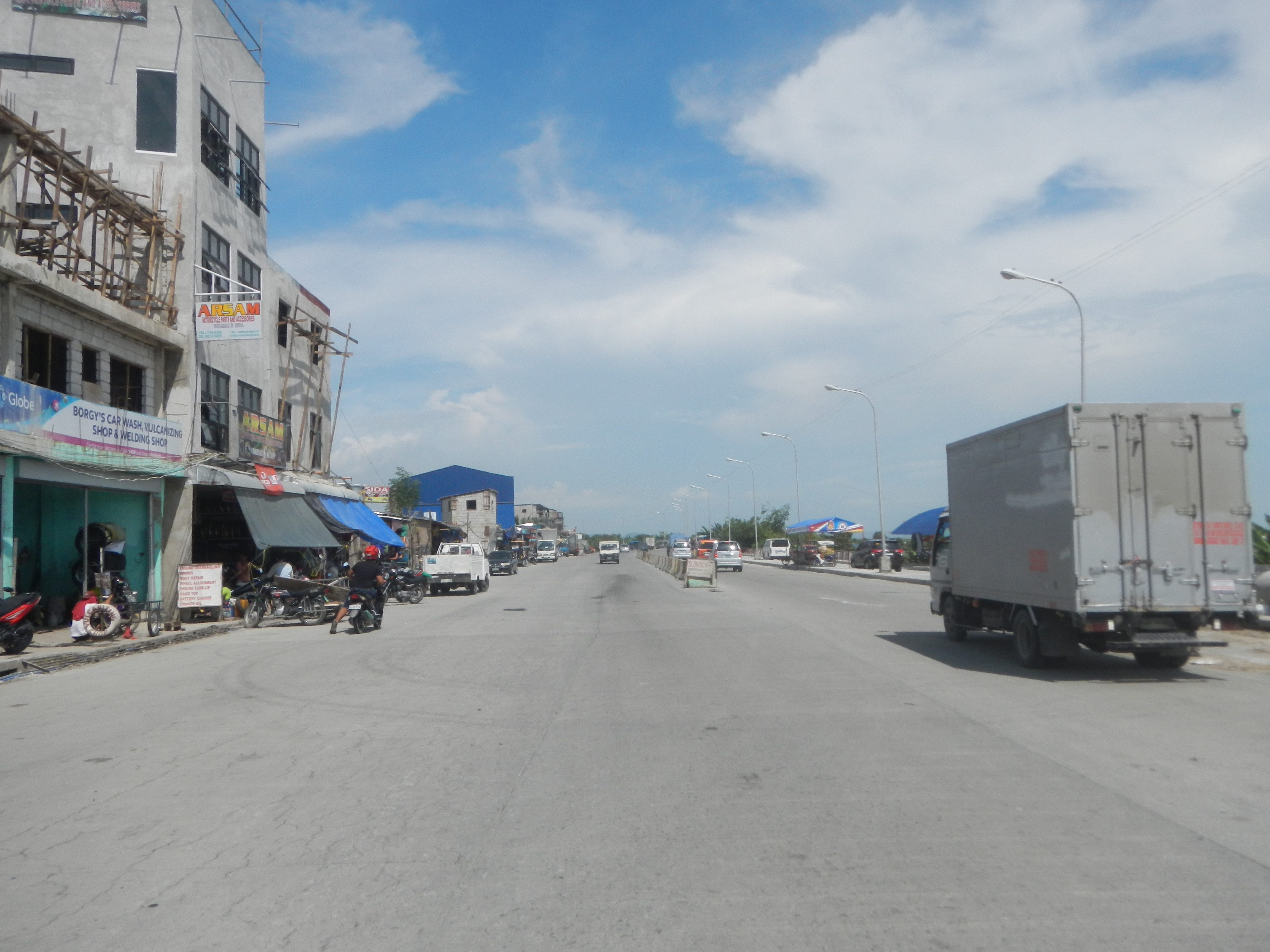 Circumferential Road 6 Napindan Bridge (C-6 Road, Taguig River, Napindan River-Channel NHCS & Pasig River), Pinagbuhatan, Pasig City-Santa Ana, Taytay, Rizal; Taguig River Napindan River (Napindan Channel) Napindan, Taguig City Barangay Napindan 14°32'4"N 121°5'53"E Taguig City Napindan Bridge (Pasig) 14°32'6"N 121°6'8"E Taguig River Napindan Hydraulic Control Structure or NHCS Pasig River (Napindan Channel) (Note: Judge Florentino Floro, the owner, to repeat, Donor Florentino Floro of all these photos hereby donate gratuitously, freely and unconditionally all these photos to and for Wikimedia Commons, exclusively, for public use of the public domain, and again without any condition whatsoever).